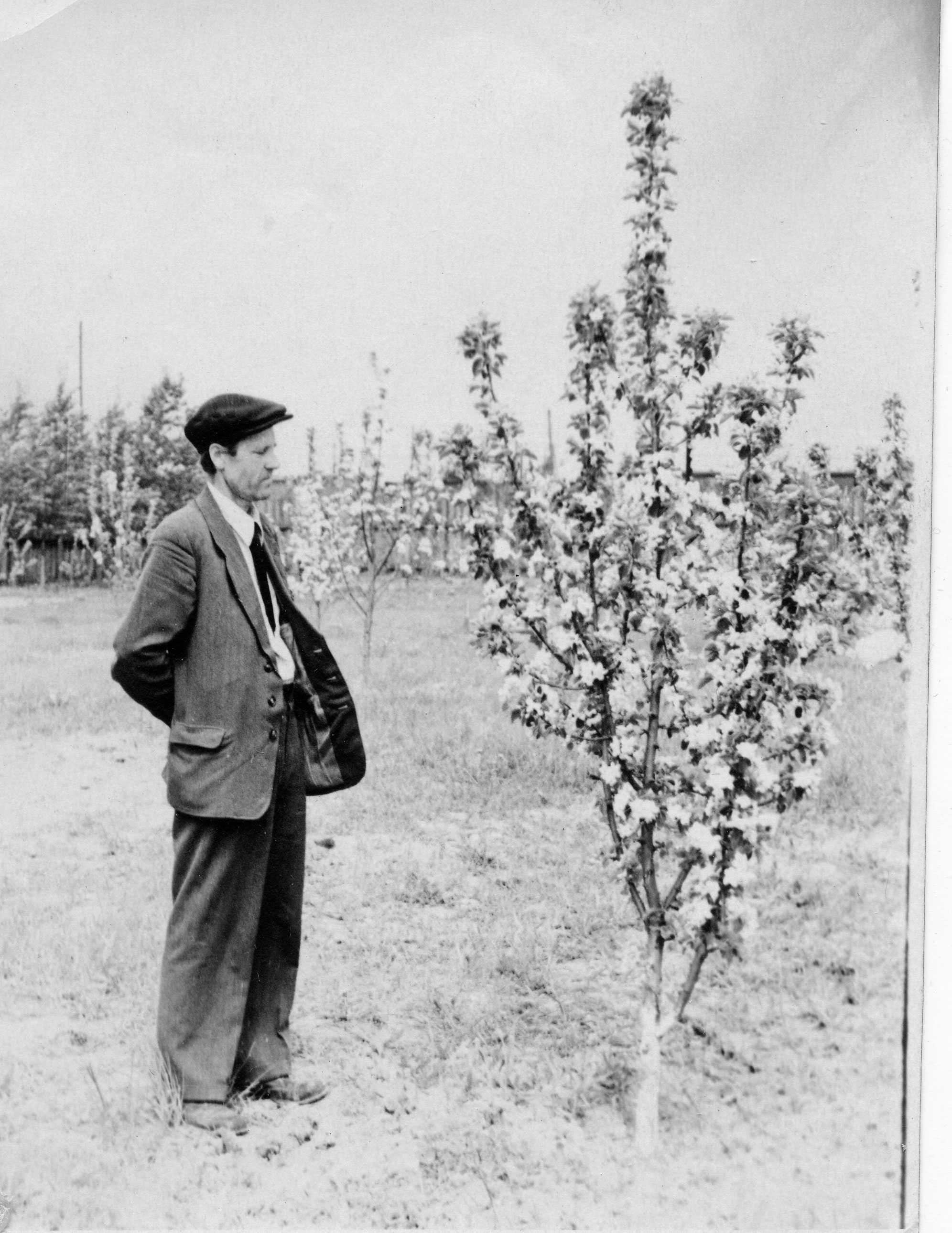 Russian scientist Vigorov, Leonid Ivavovich in the garden (1959, Sverdovsk, USSR)